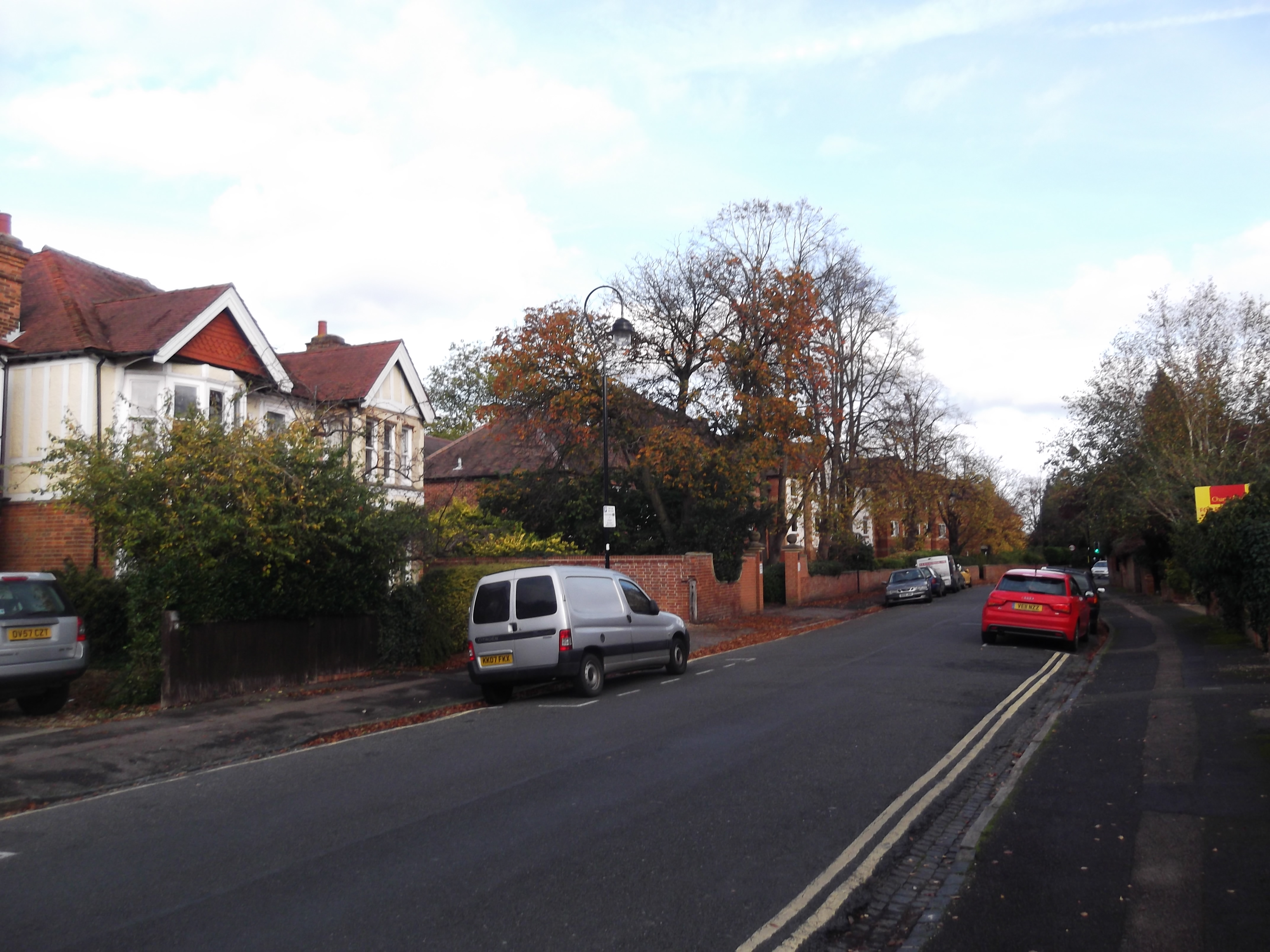 Street in north Oxford, England.